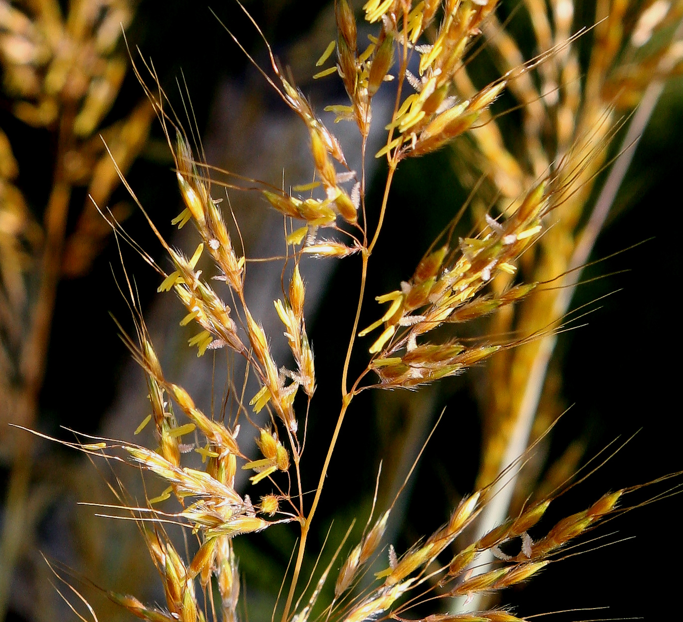 Self made picture of a grass species showing flowers.